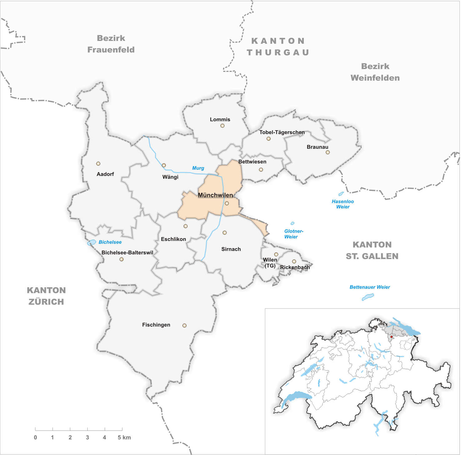 Municipality Münchwilen